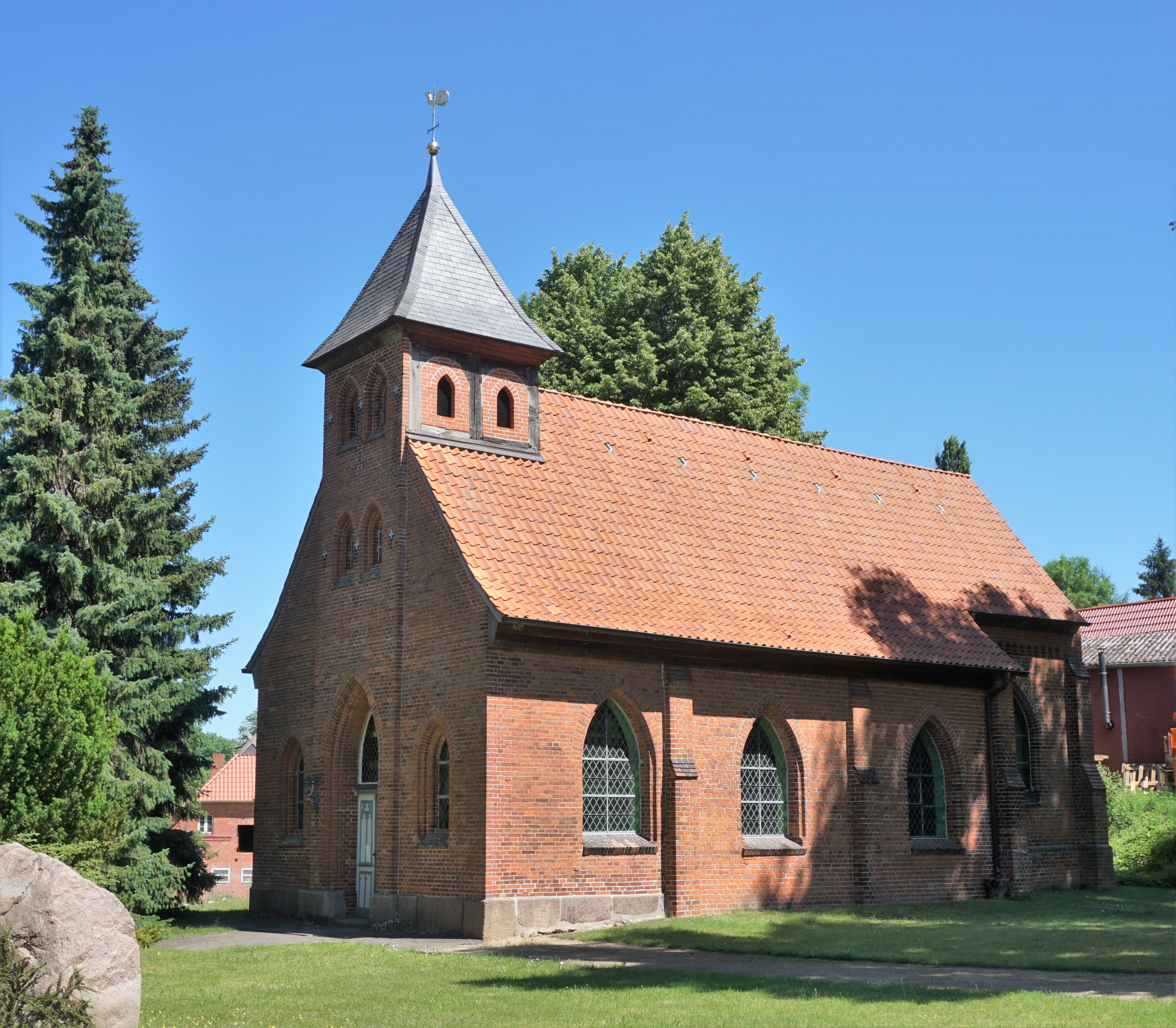 Saint Nicholas Chapel in Vastorf in the Lower Saxonian district of Lüneburg.